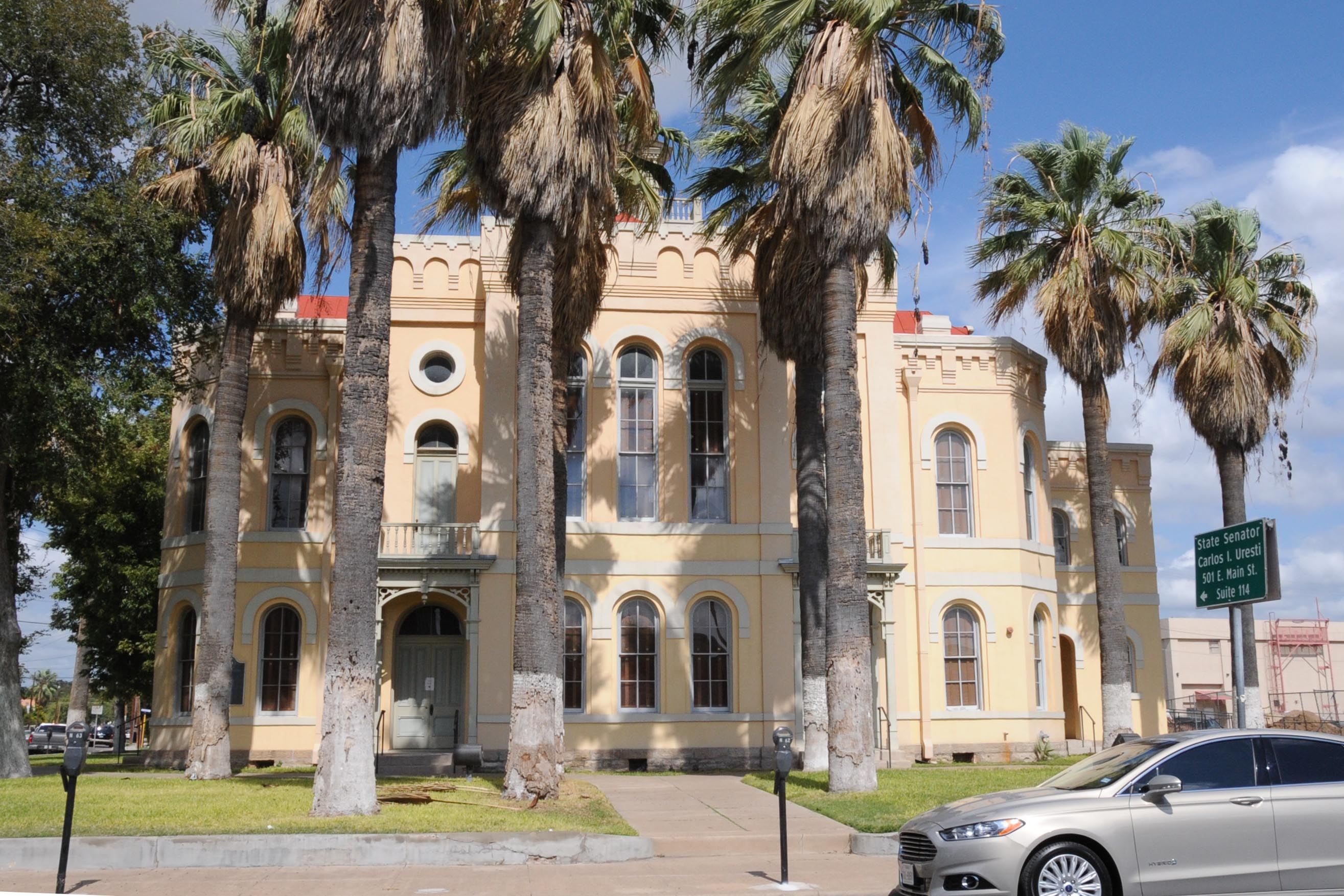 BUILT IN 1885 IN ROMANESQUE REVIVAL STYLE. SITE OF THE FAMOUS 1889 TRIAL OF DICK DUNCAN ACCUSED OF MURDERING 4 PEOPLE. HIS APPEAL REACHED THE STATE AND FEDERAL COURTS TO NO AVAIL AND HE WAS HANGED